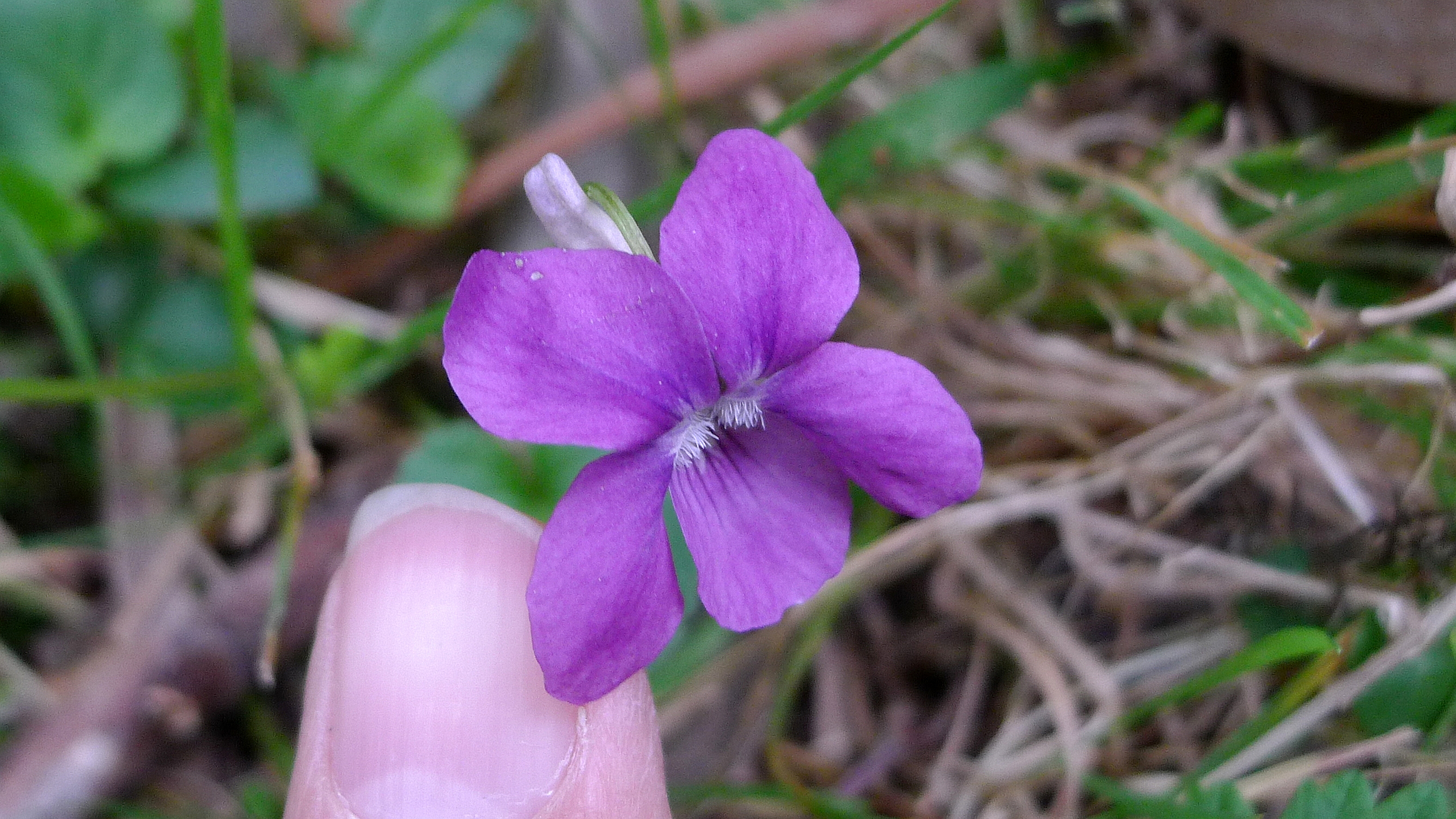 Dog Violet, Viola riviniana, flower about 20 mm across. Olinda, Victoria, Australia, October 2014.